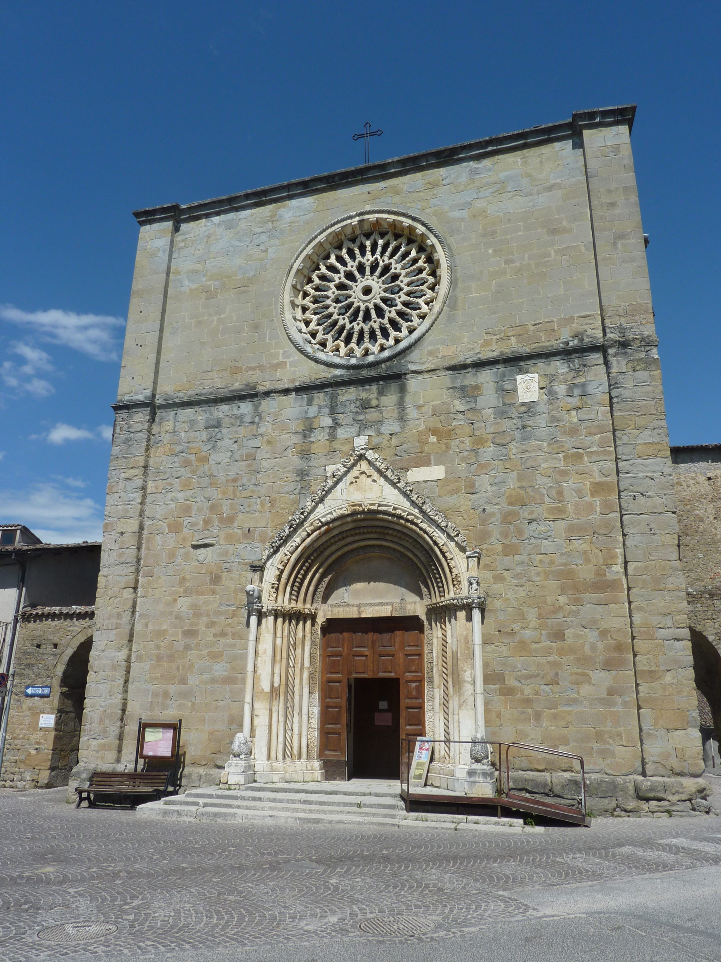 Sant'Agostino church in Amatrice, Italy on 14 May 2011.